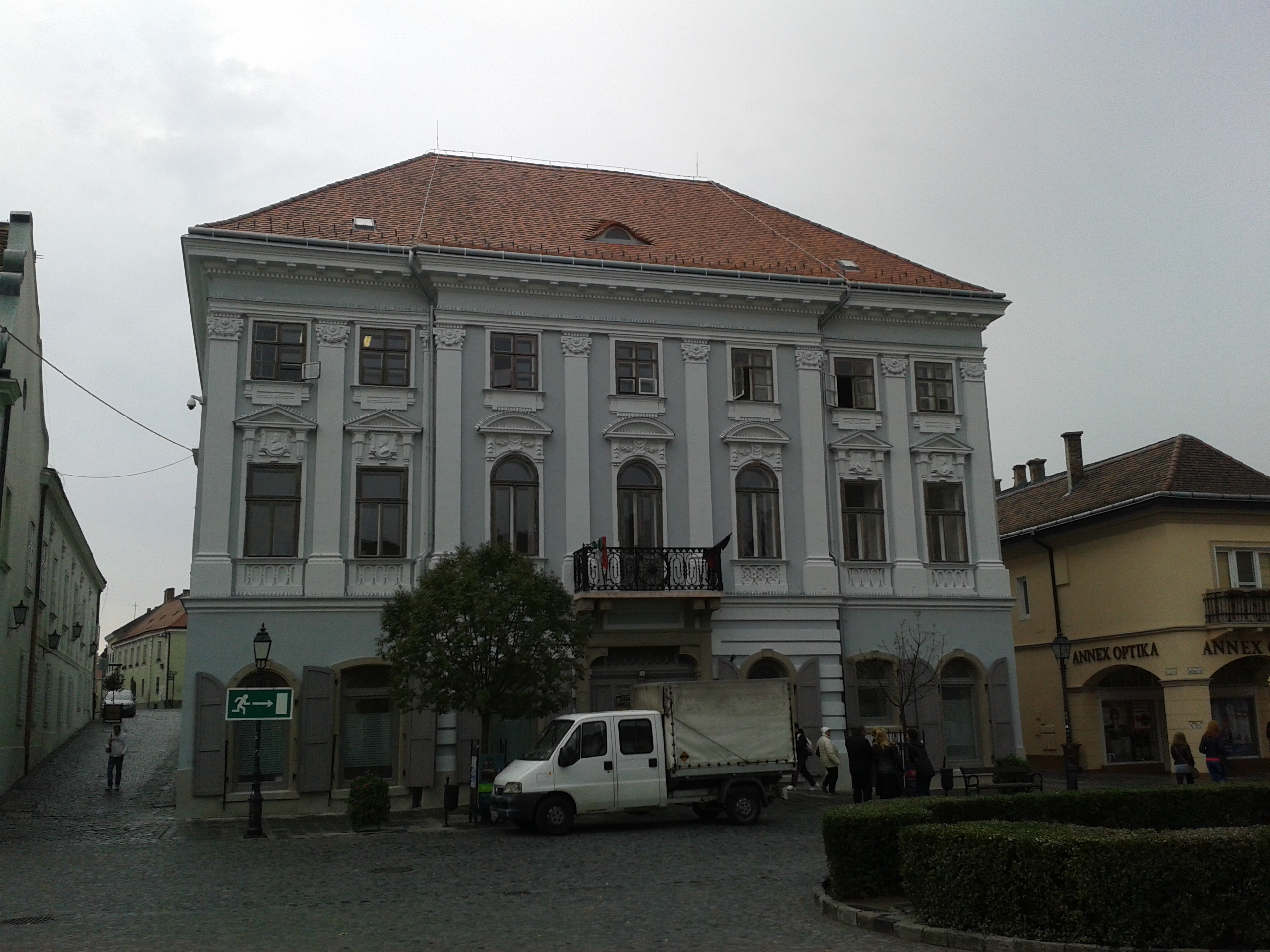 Székesfehérvár Town Hall second building